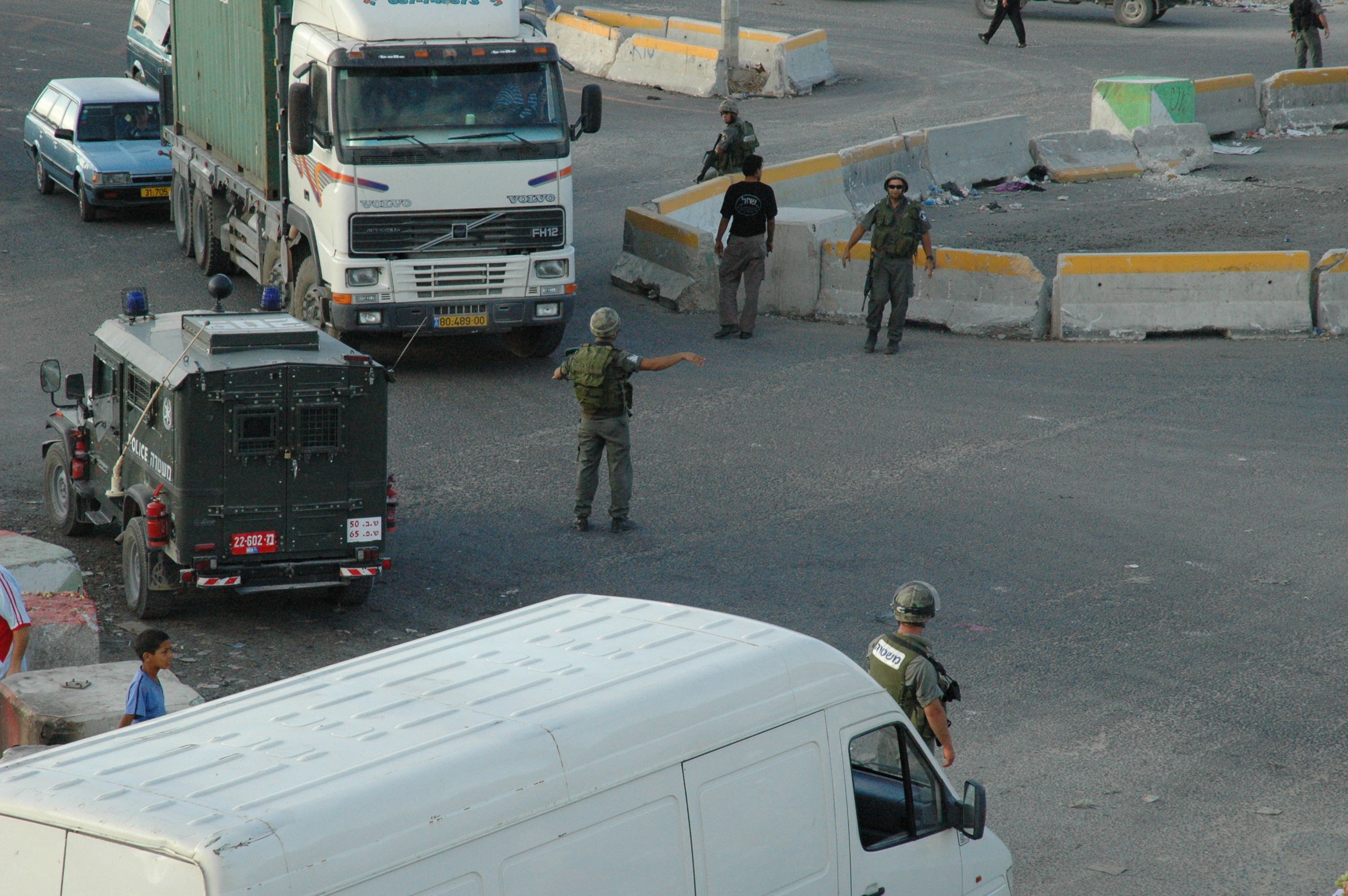 Israeli troops directing traffic at the Kalandia checkpoint. The truck is a Volvo FH12 loaded with an anonumous green ISO shipping-container. The militairy police vehicle is probably a Toyota Land Cruiser.